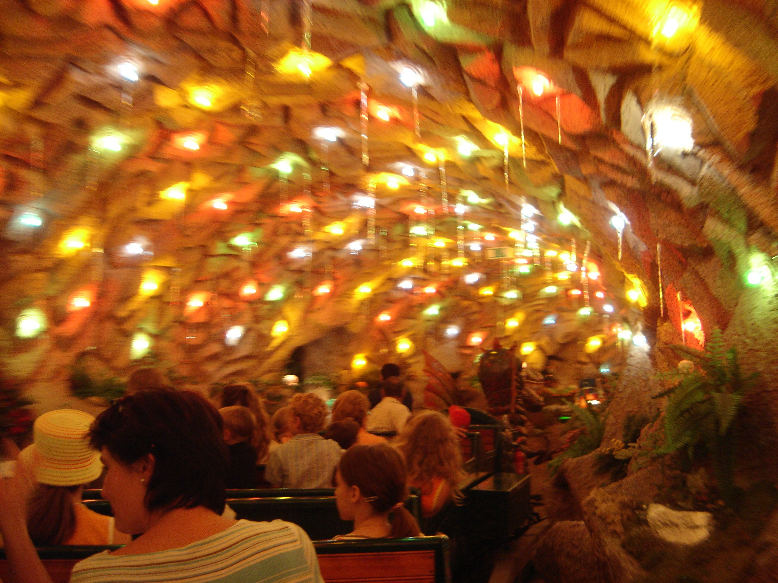 Riding the Grottenbahn in Linz. Visitors ride through the tunnel several times; in the final ride, many colorful lights are turned on.